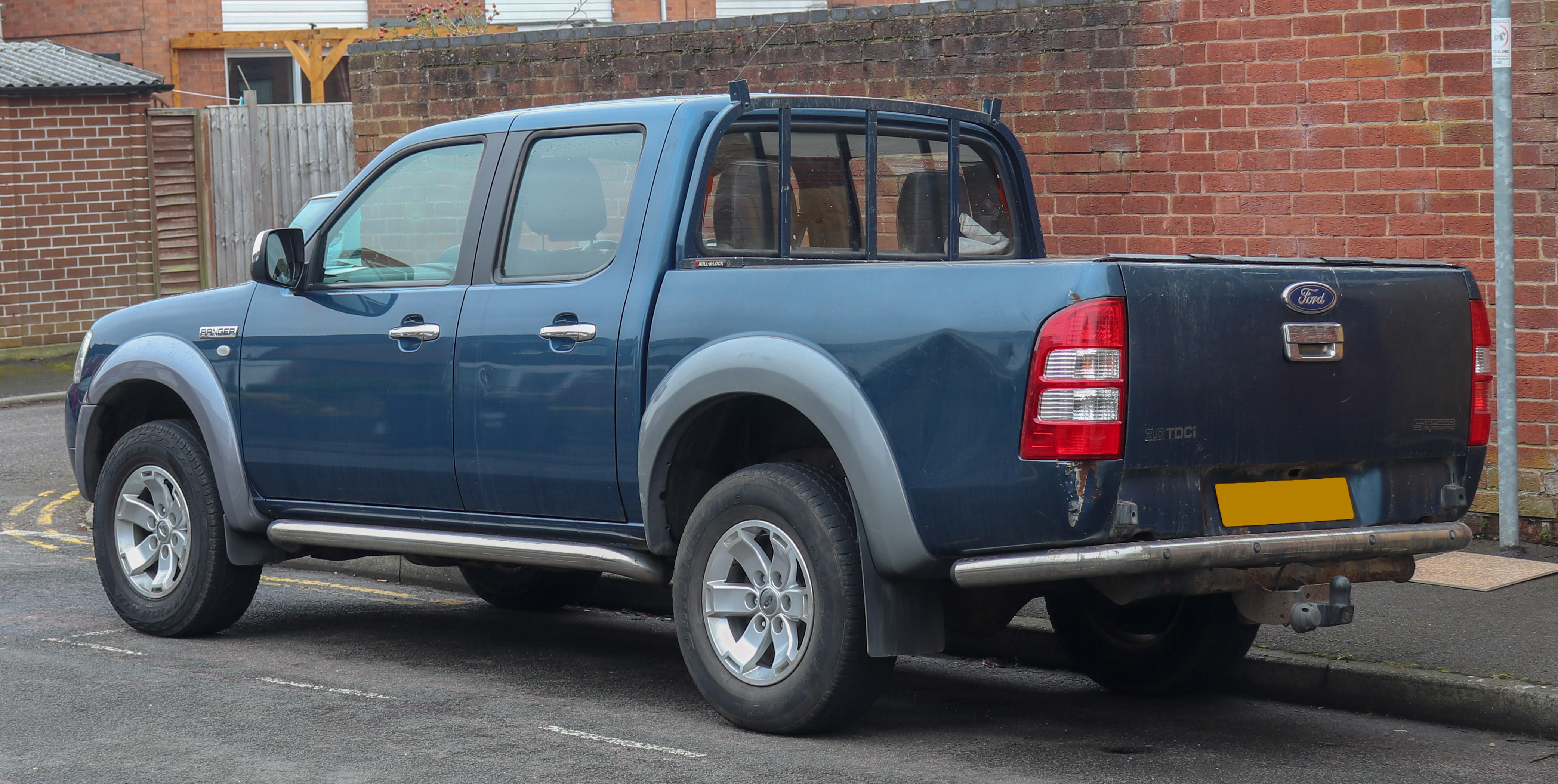 2007 Ford Ranger Thunder TDCI Automatic 3.0 Rear Taken in Warwick